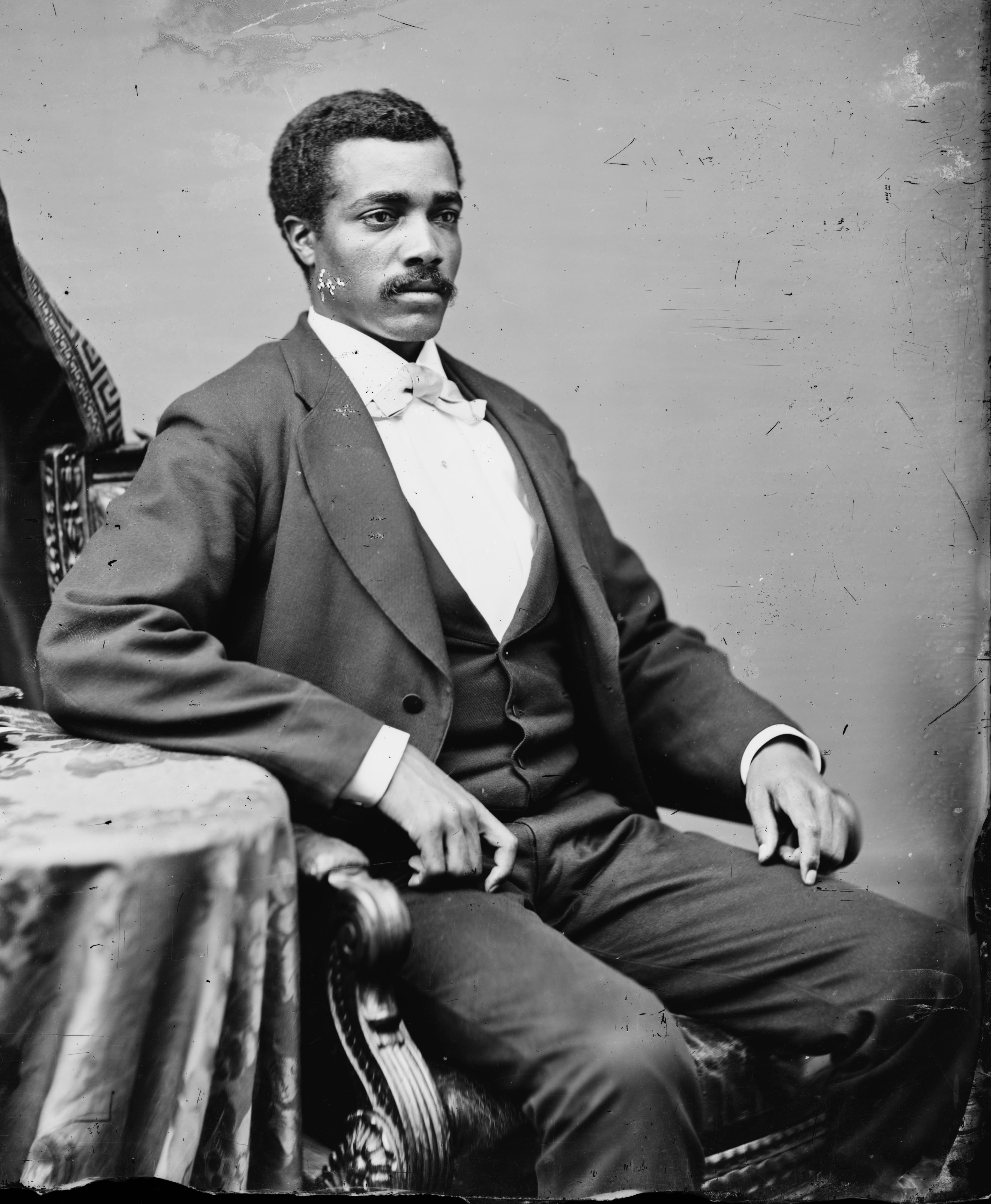 Josiah T. Walls. Library of Congress description: "Hon. Josiah Thomas Walls of Florida"